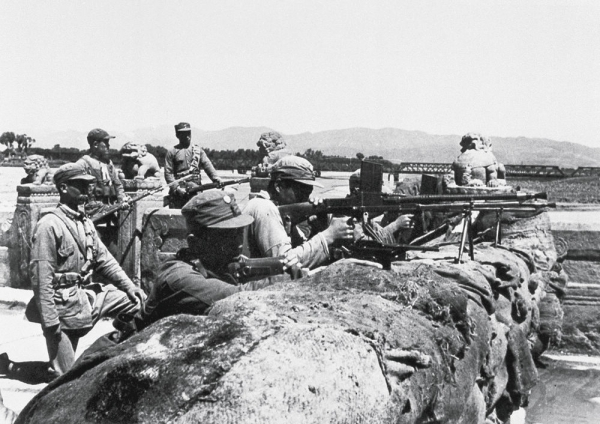 In the year of 1937, the Chinese Army 29 was fighting to guard their motherland against the Japanese invaders.